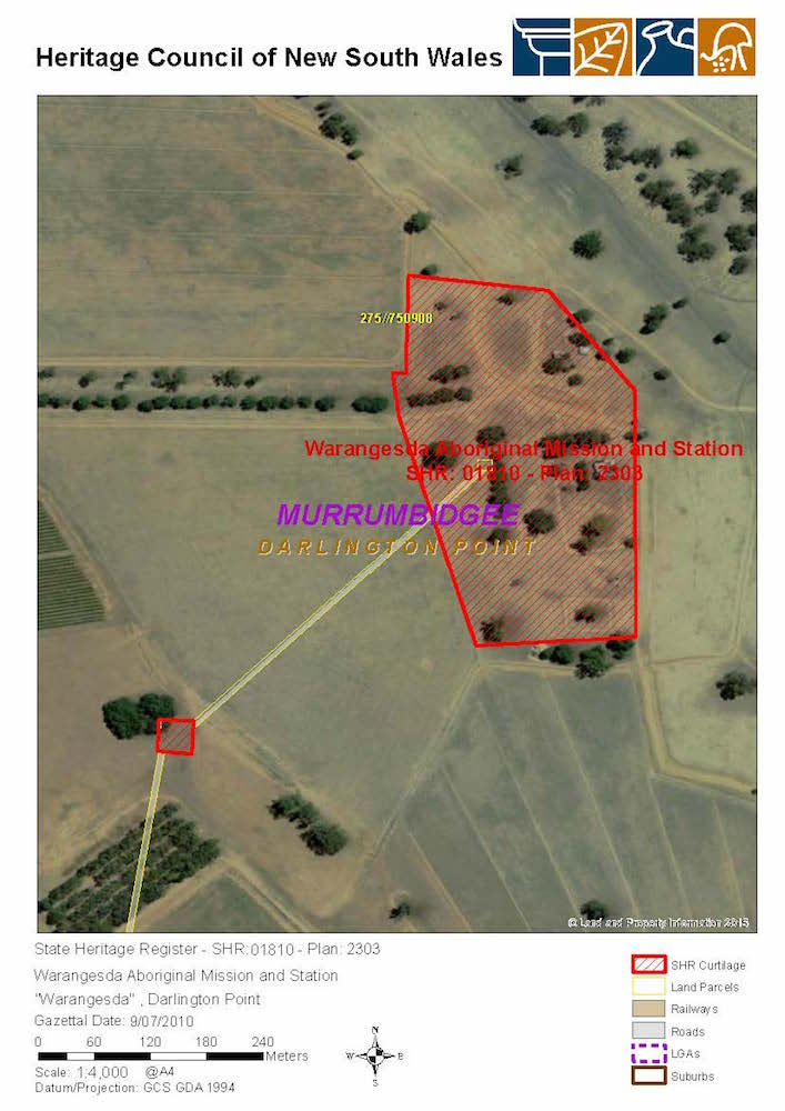 Warangesda Aboriginal Mission: SHR Plan 2303